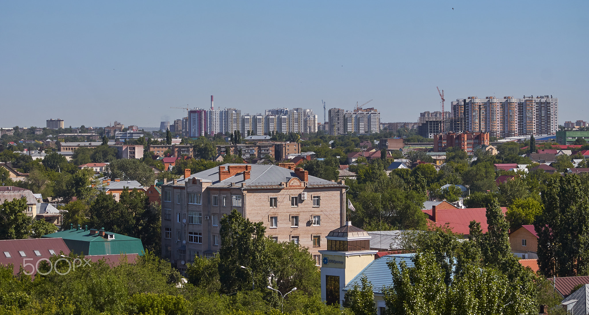 500px provided description: ??? ?? ????? ? ?????? ??????? ?????. [#landscape ,#tower ,#urban ,#home ,#landscapes ,#landmark ,#orenburg ,#townscape]